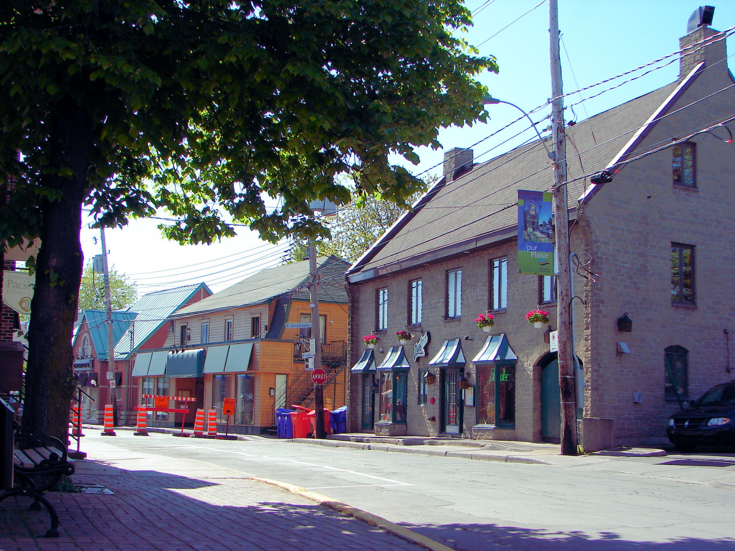 Ste-Anne Street in Sainte-Anne-de-Bellevue, Quebec, Canada